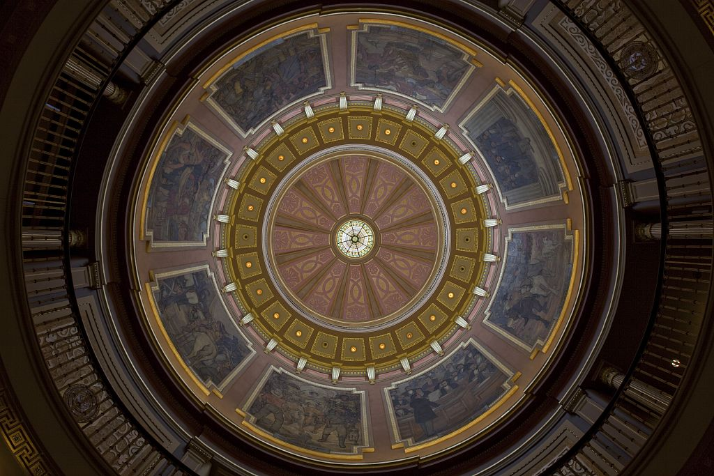 View of the Rotunda looking straight up. State Capitol, Montgomery, Alabama.